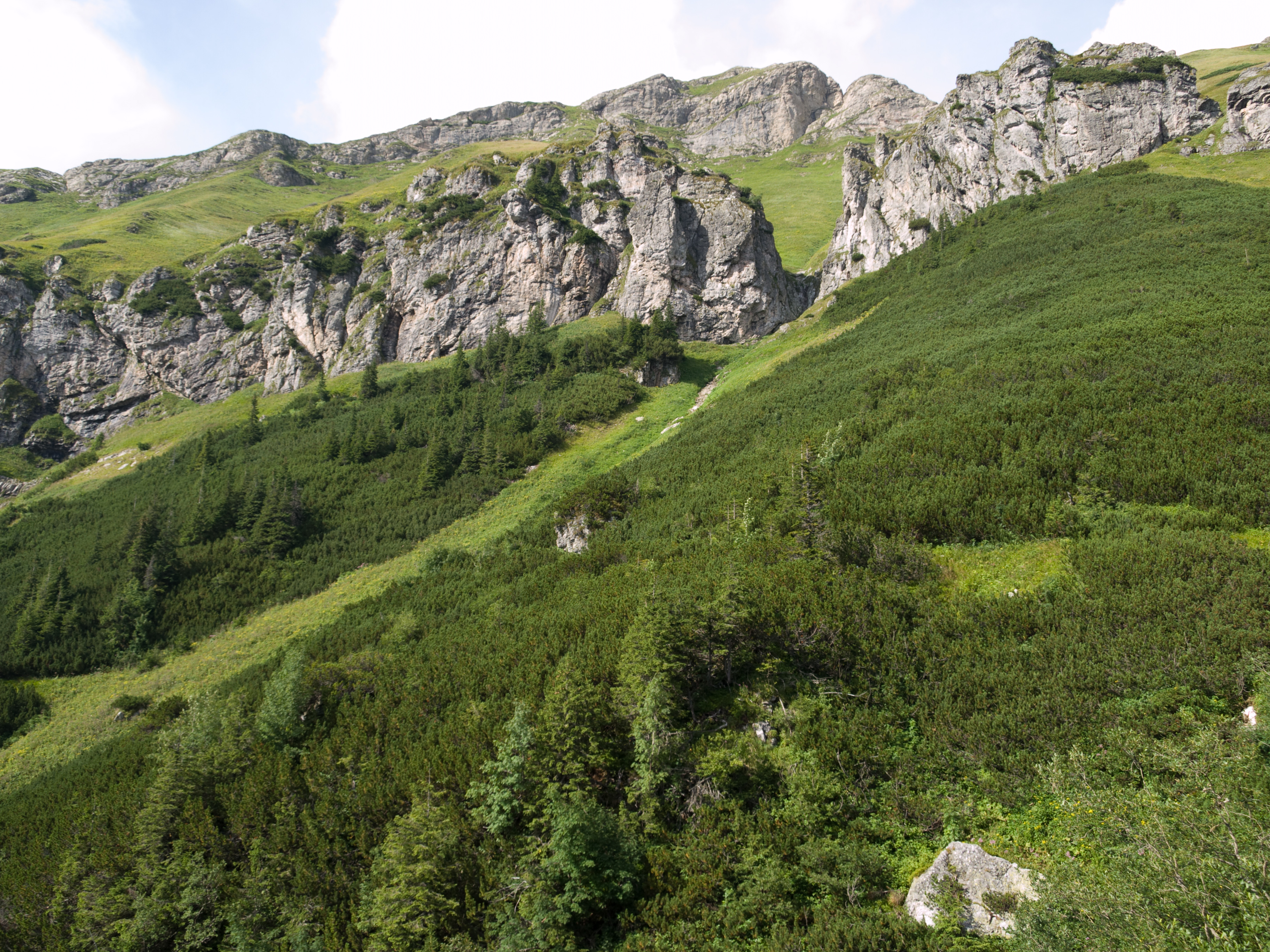 Zadný Štefanov žľab, dolomite rocks of Vyšné Rendy and Nový vrch.